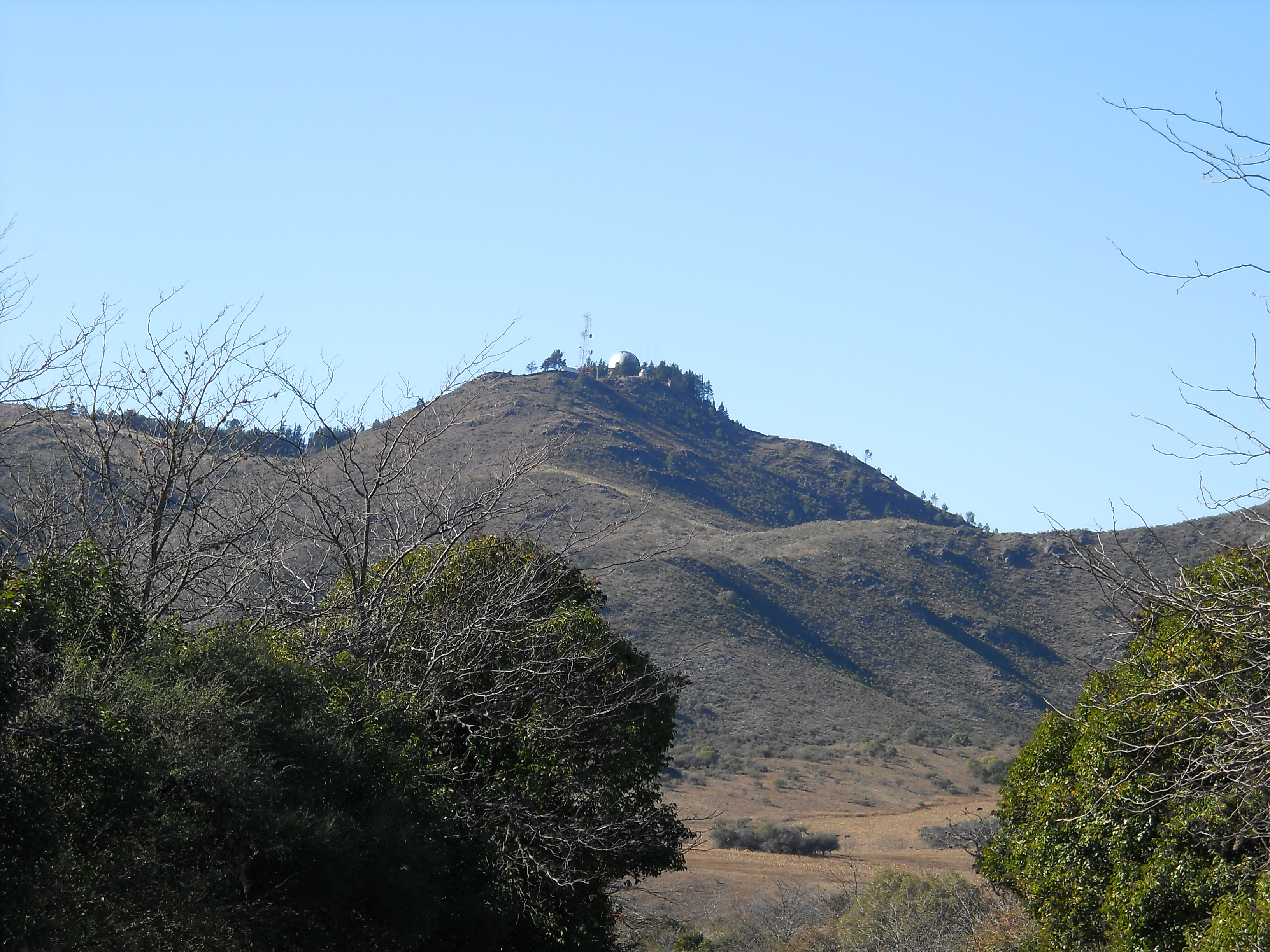 The Astrophisical observatory of 'Bosque Alegre', Córdoba province, Argentine state.